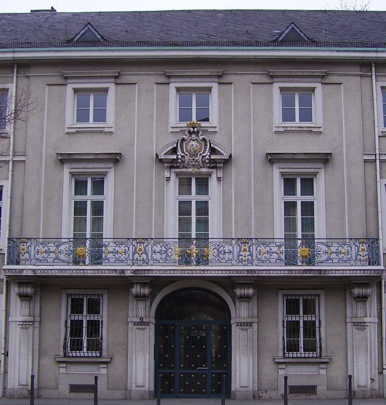 in Mannheim, Germany